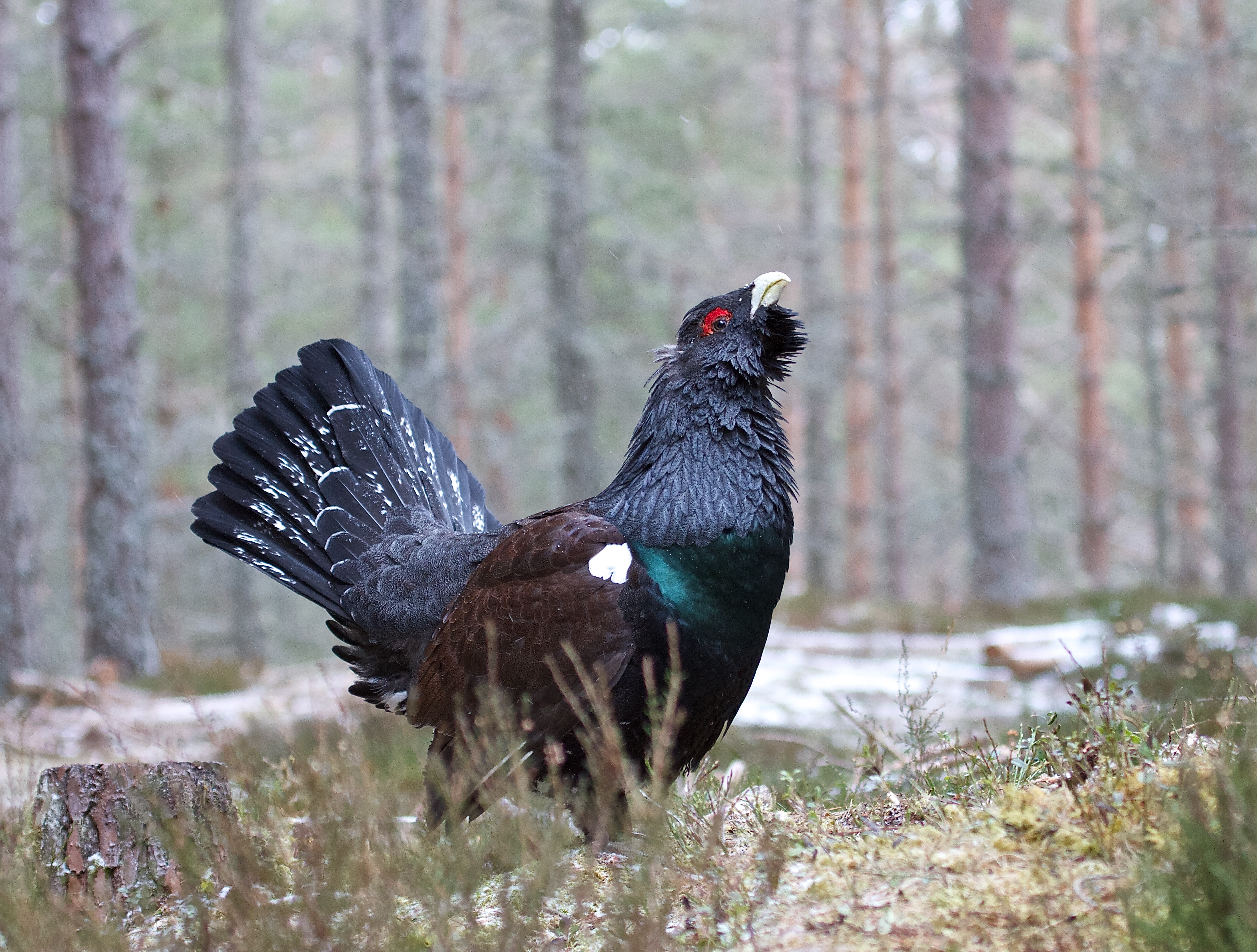 Tetrao urogallus ♂ displaying, Glenfeshie, Scotland